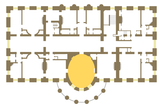 Floor plan of White House second floor showing the location of the Yellow Oval Room. 18.02.07, Jim Hood.